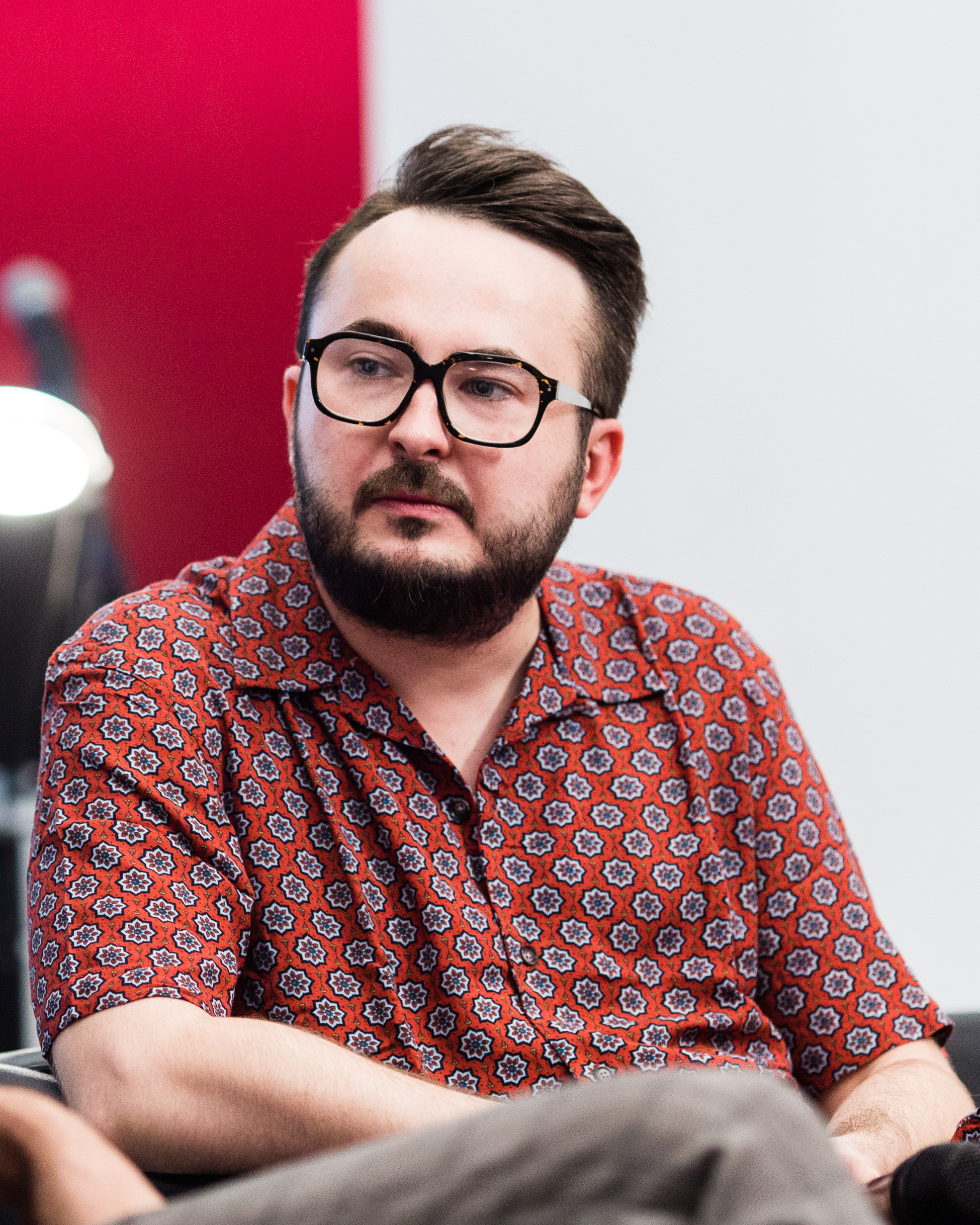 Bolesław Chromry on Authors’ Reading Month 2019, Wrocław, Poland